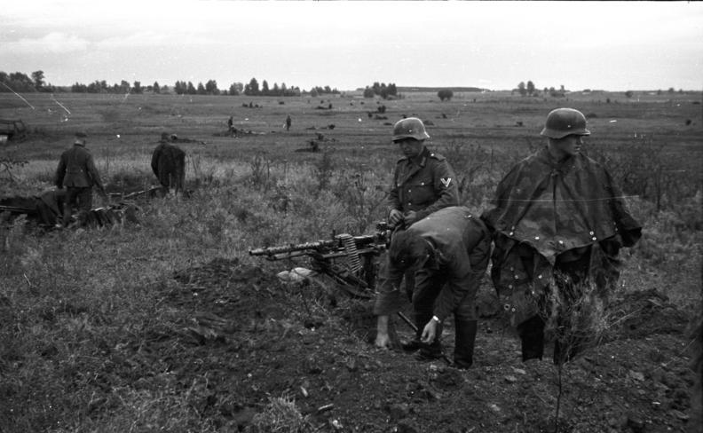 Information added by Wikimedia users.Soviet union - After crossing the Dnieper, soldiers in the marshes, foxholes with machine gun emplacement in an open field